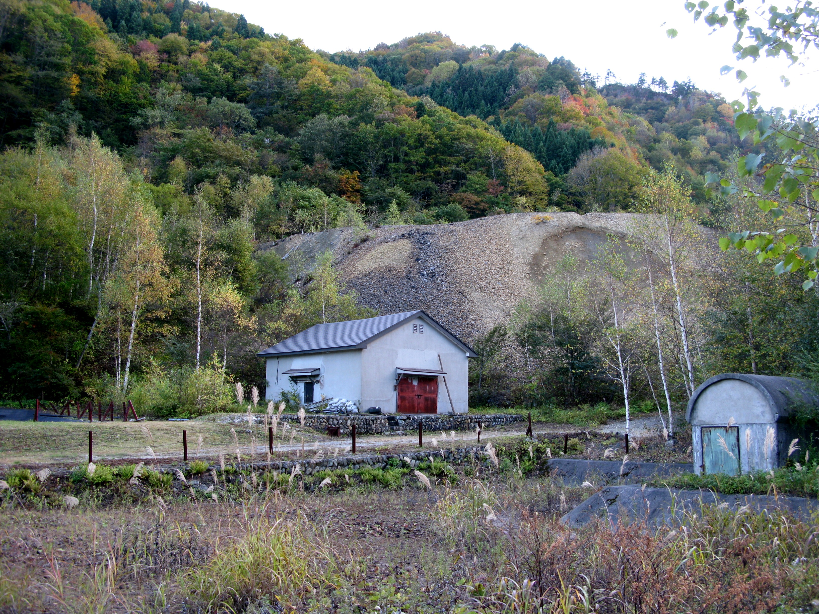 Yasou-Kouzan-ato, Minamiaizu-machi, Fukushima pref. ,Japan